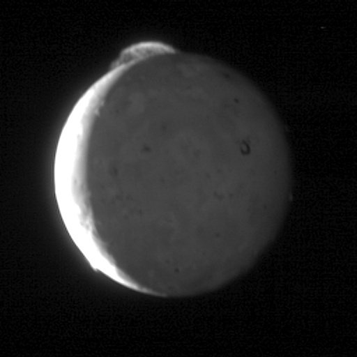 Single frame of Image:Tvashtarvideo.gif, suitable for thumbnail purposes.